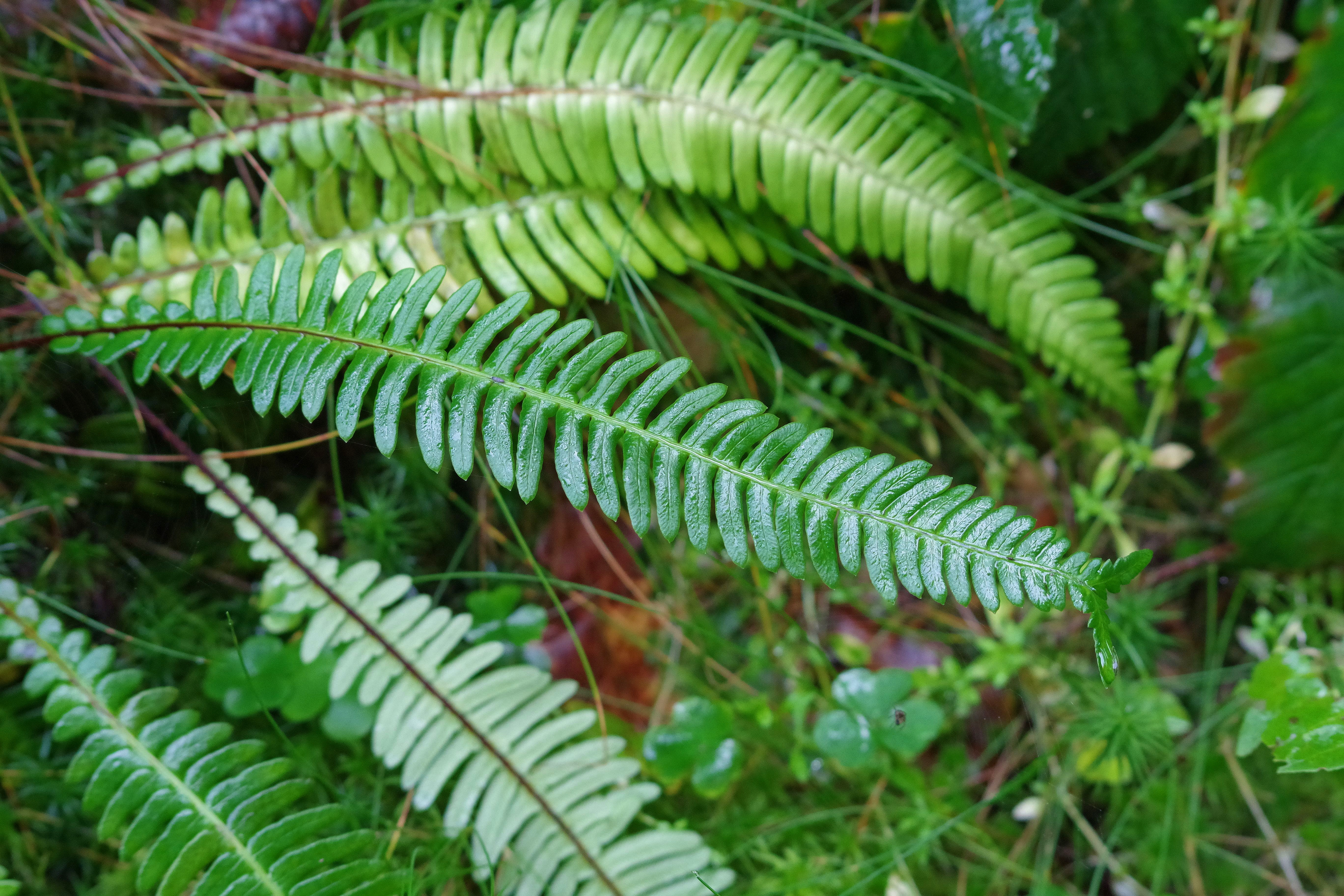 Plant Blechnum spicant.